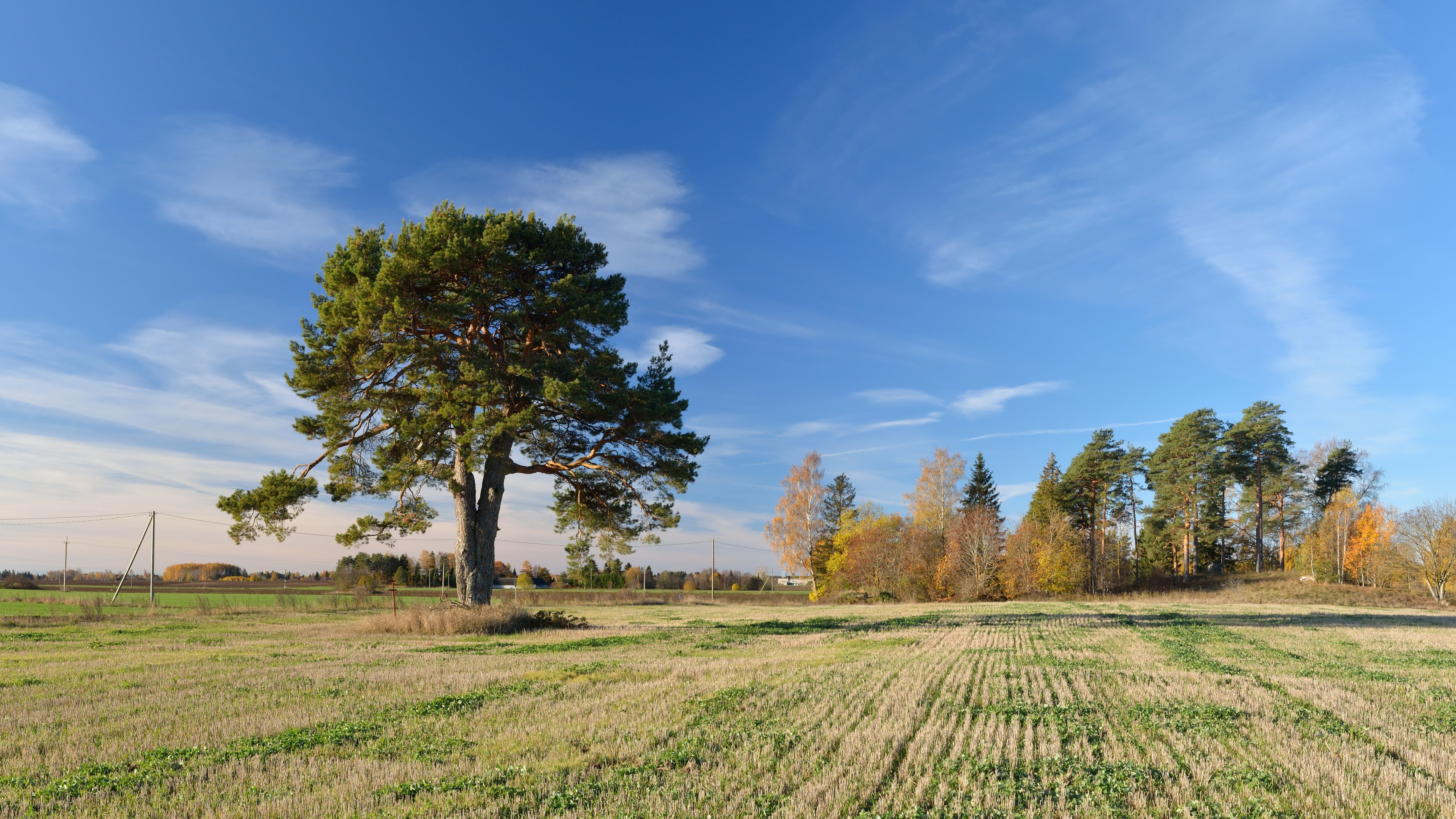 Kallukse pine (Pinus sylvestris) is protected native (indigenous) pine in Estonia.